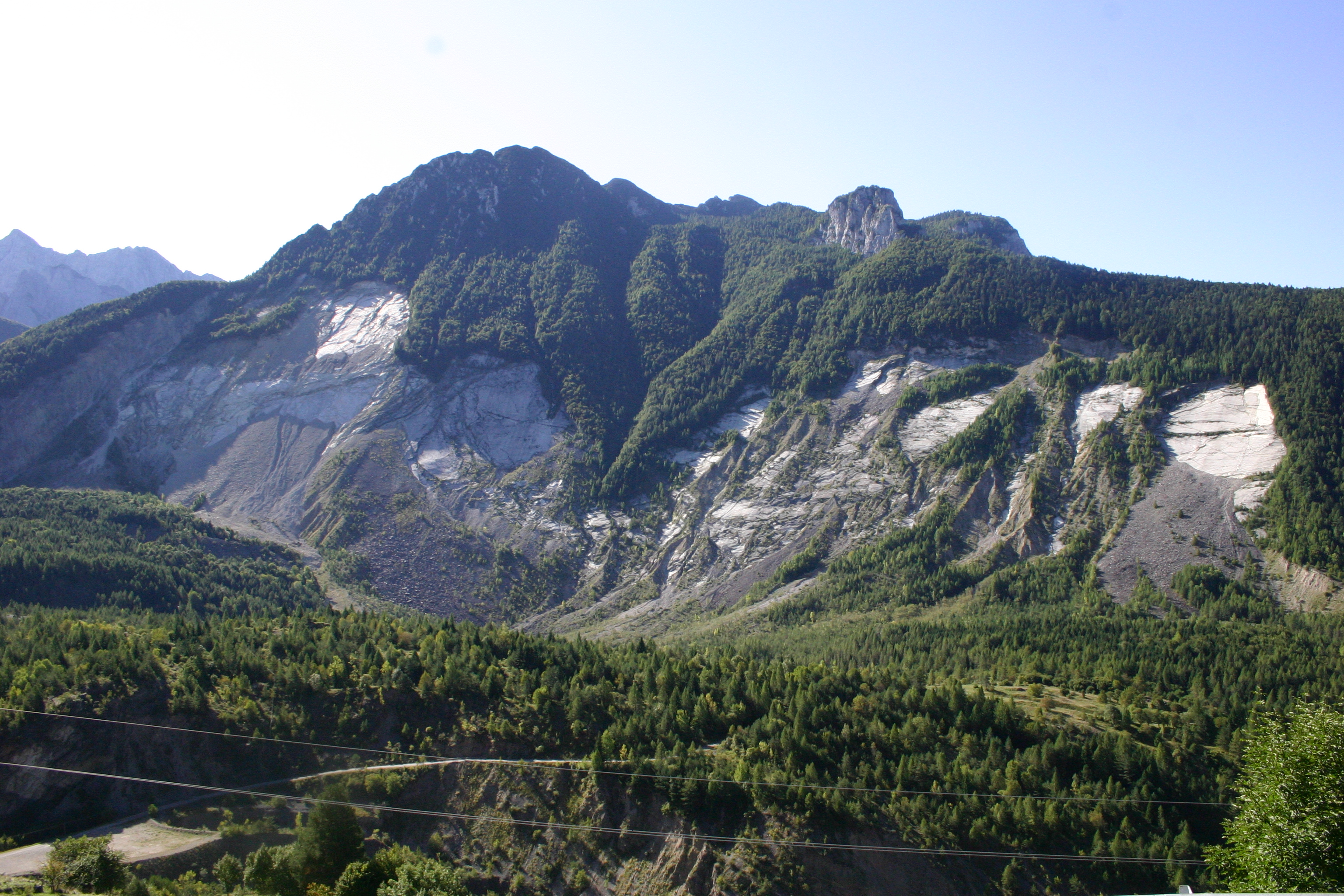 Monte Toc (Dolomites, Italy) and debris of the Vajont catastrophe